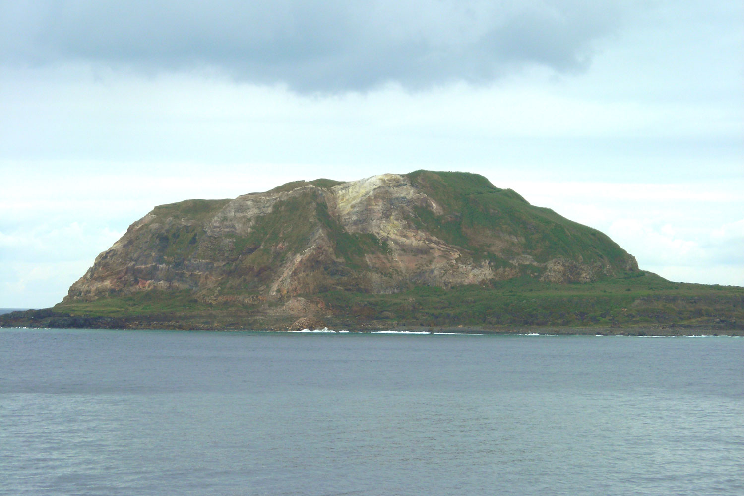 Mount Suribachi, Iwo Jima (Ioto Island), Ogasawara Village, Tokyo.